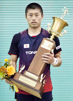 Sho Sasaki (Japanese National Badminton Player) at 2011 US Open (badminton).